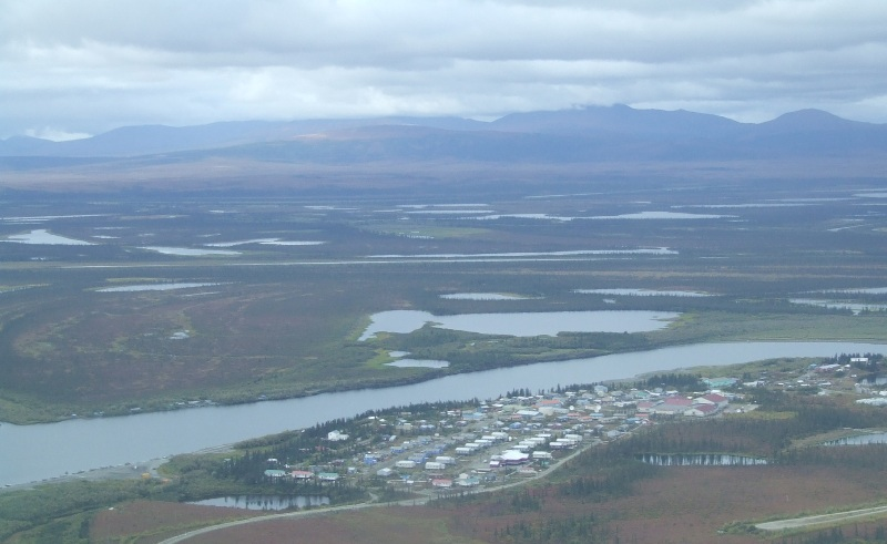 Aerial photo of Noorvik, AK.